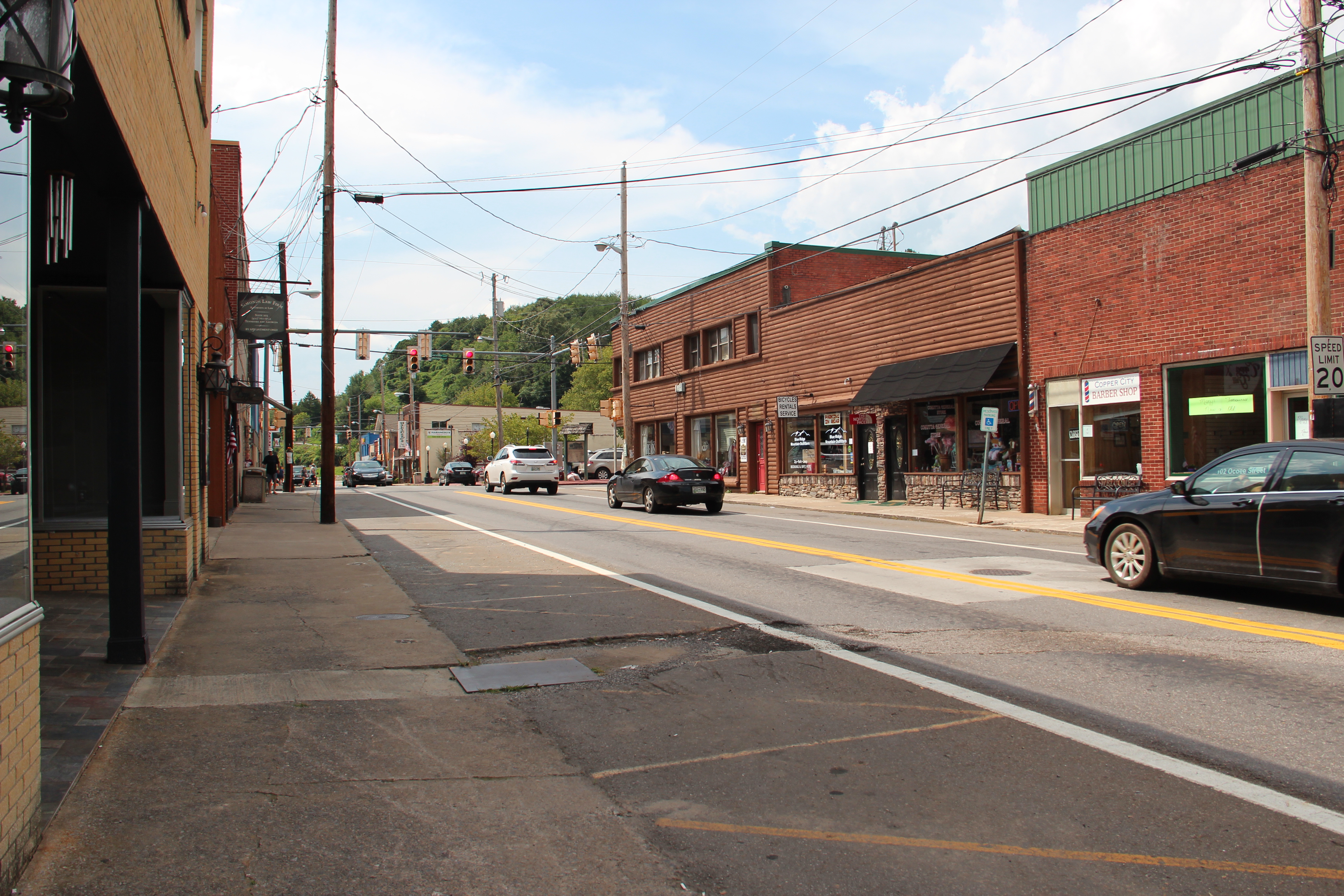 Tennessee Route 68 in Copperhill